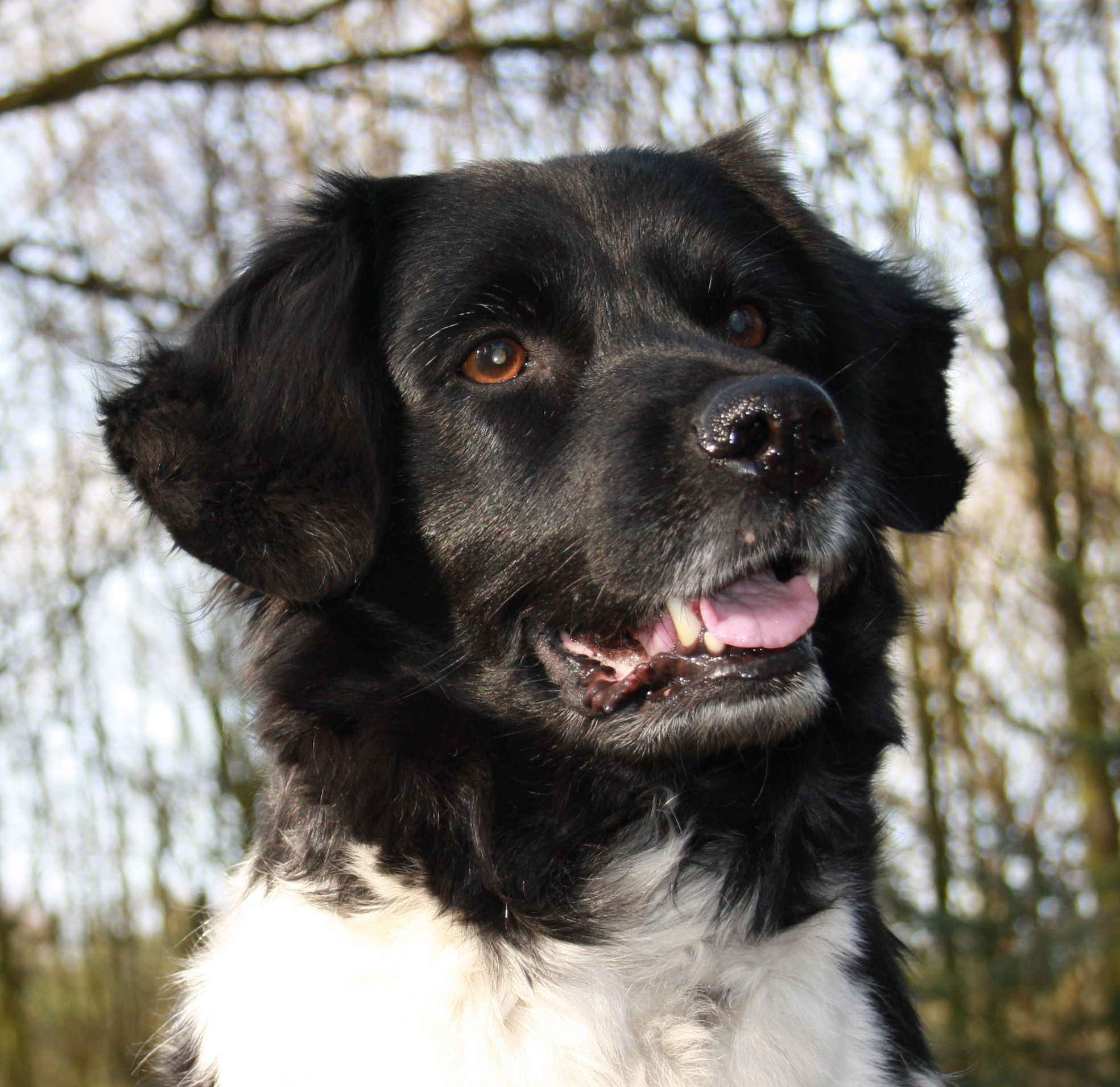 Stabyhoun